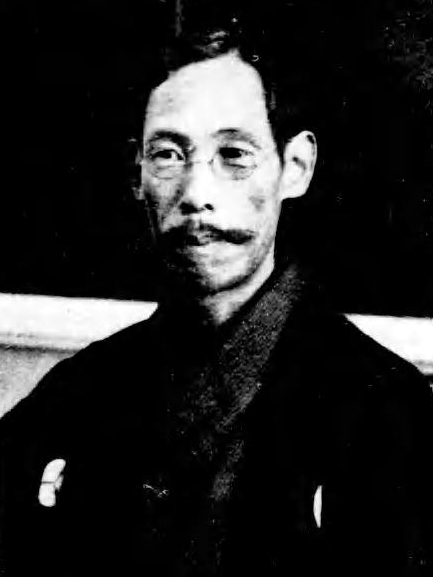 Toyoshima Gen, a Mayor of Nagaoka City